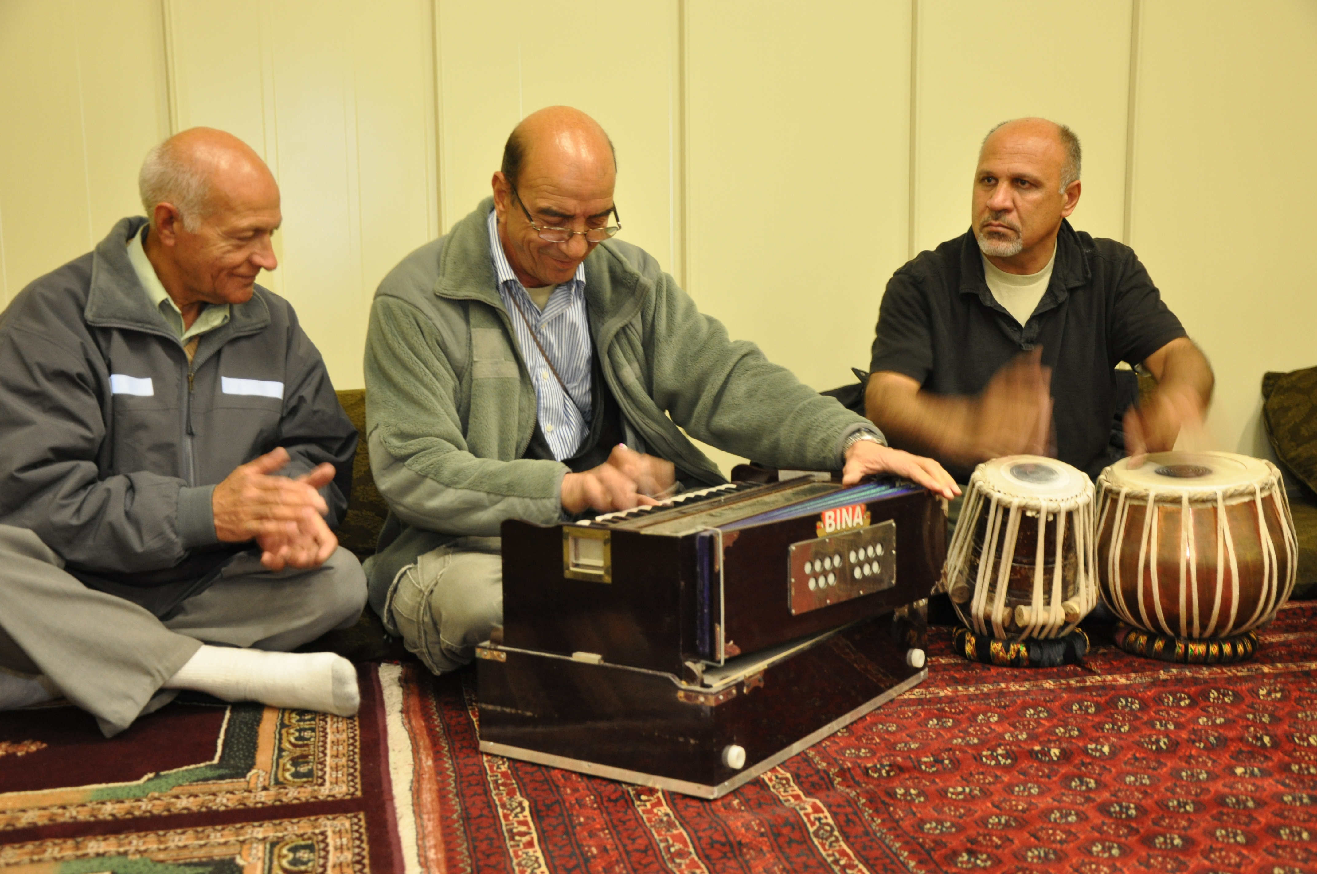 Said Shah, Ashraf Abasy and Atig Azizi perform "Shawam Sadqa" at the new Afghan Cultural Center on Camp Leatherneck in Afghanistan. The song is a popular Afghan melody that talks about all one sacrifices for the other - a love song. The musicians were performing just prior to the official ribbon cutting for the center. Shah claps his hands and sings, while Abasy plays an harmonium and Azizi hammers out a rhythm on tablas. (Photo ID: 502304)